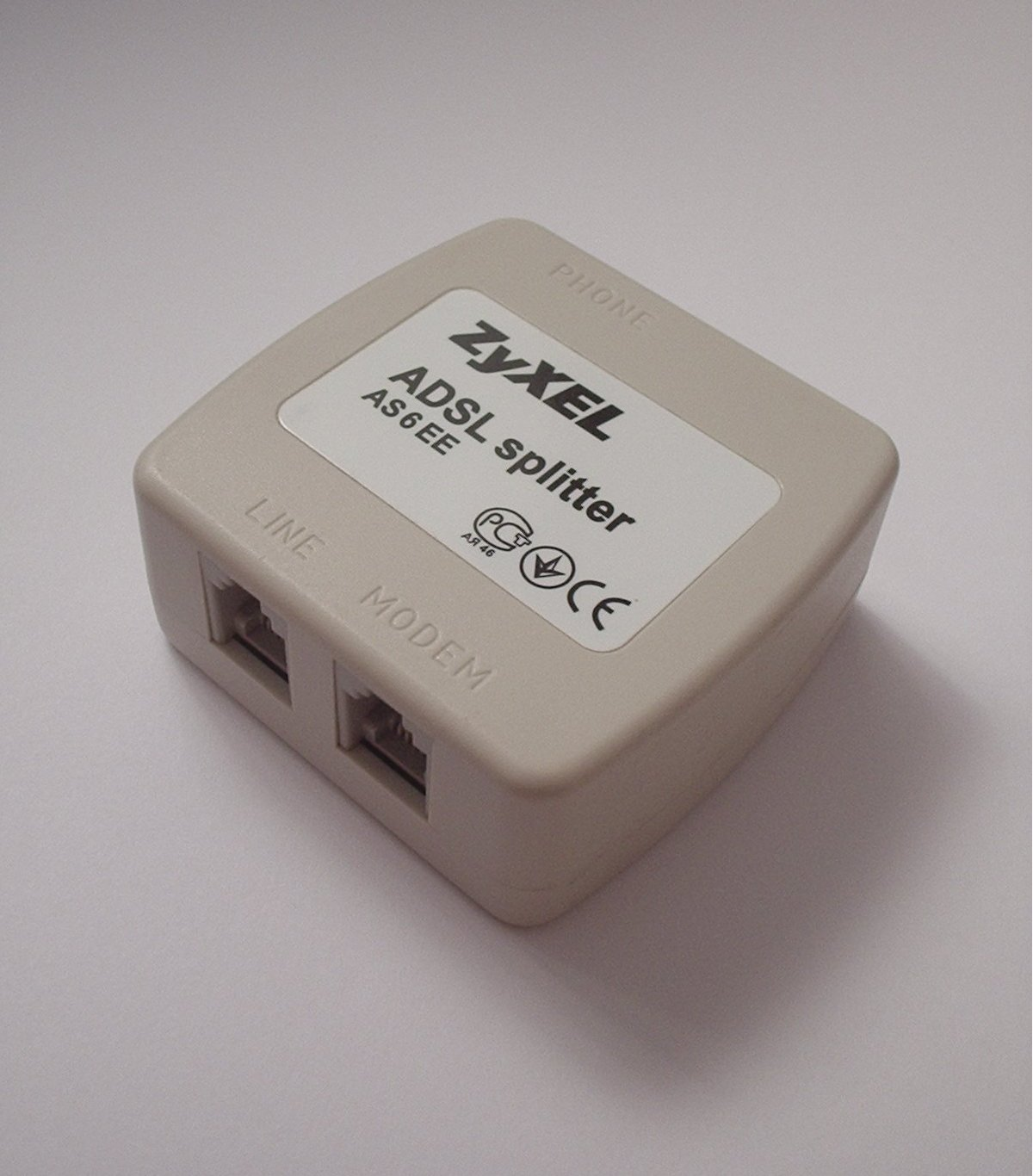 ZyXEL AS6EE ADSL splitter